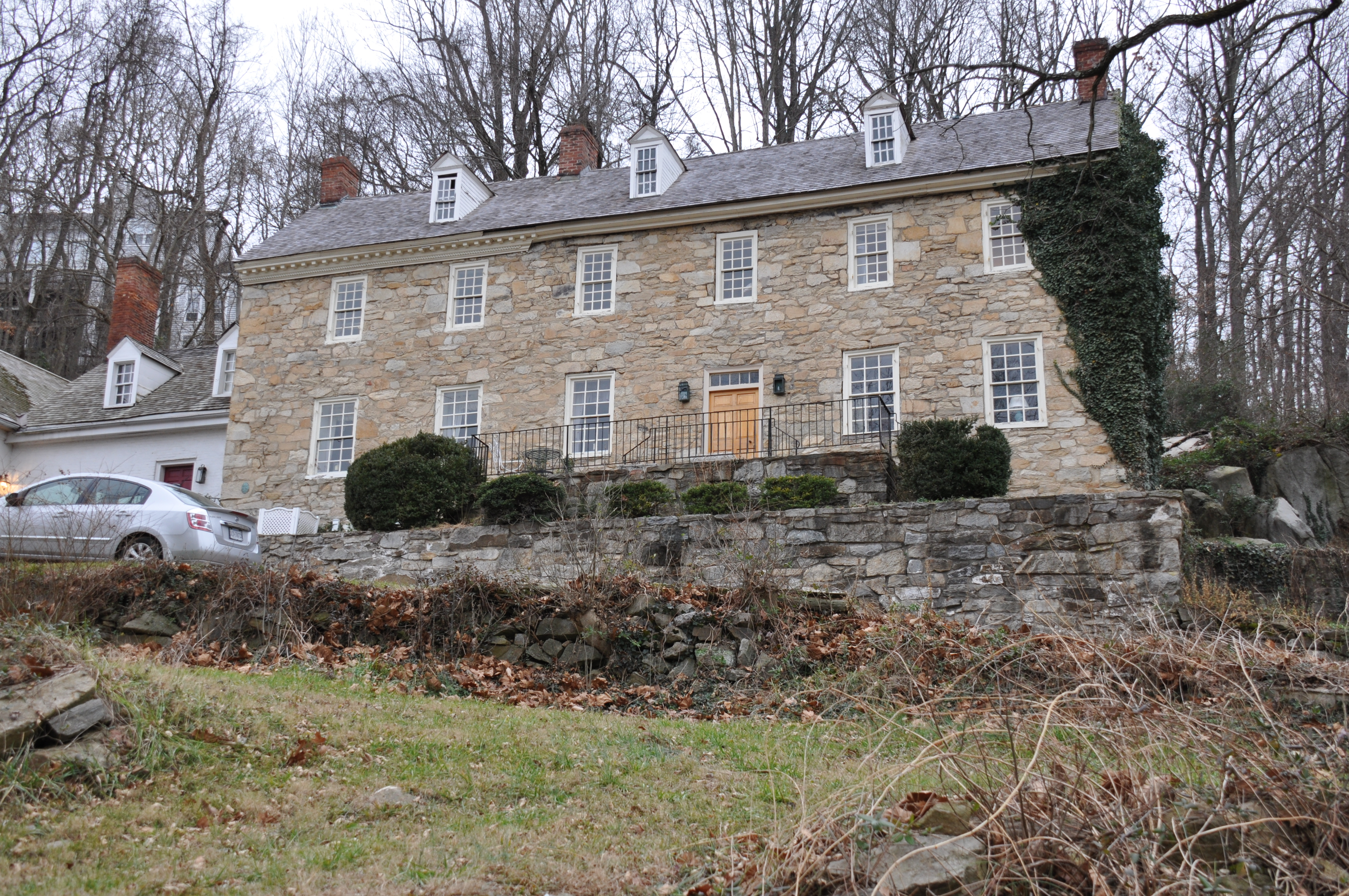 Image of a mansion in Occoquan, VA called Rockledge.